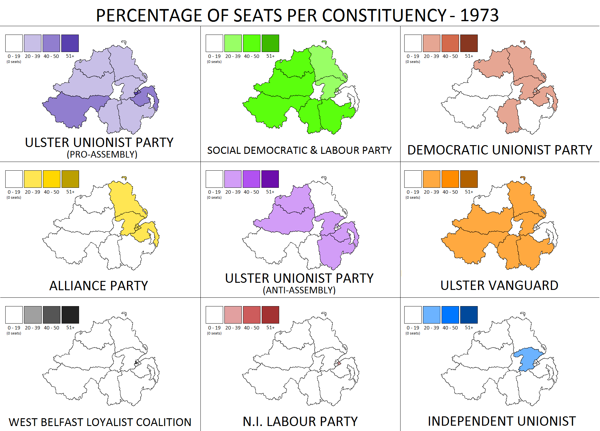 Map showing the results of the 1973 Northern Ireland Assembly election.